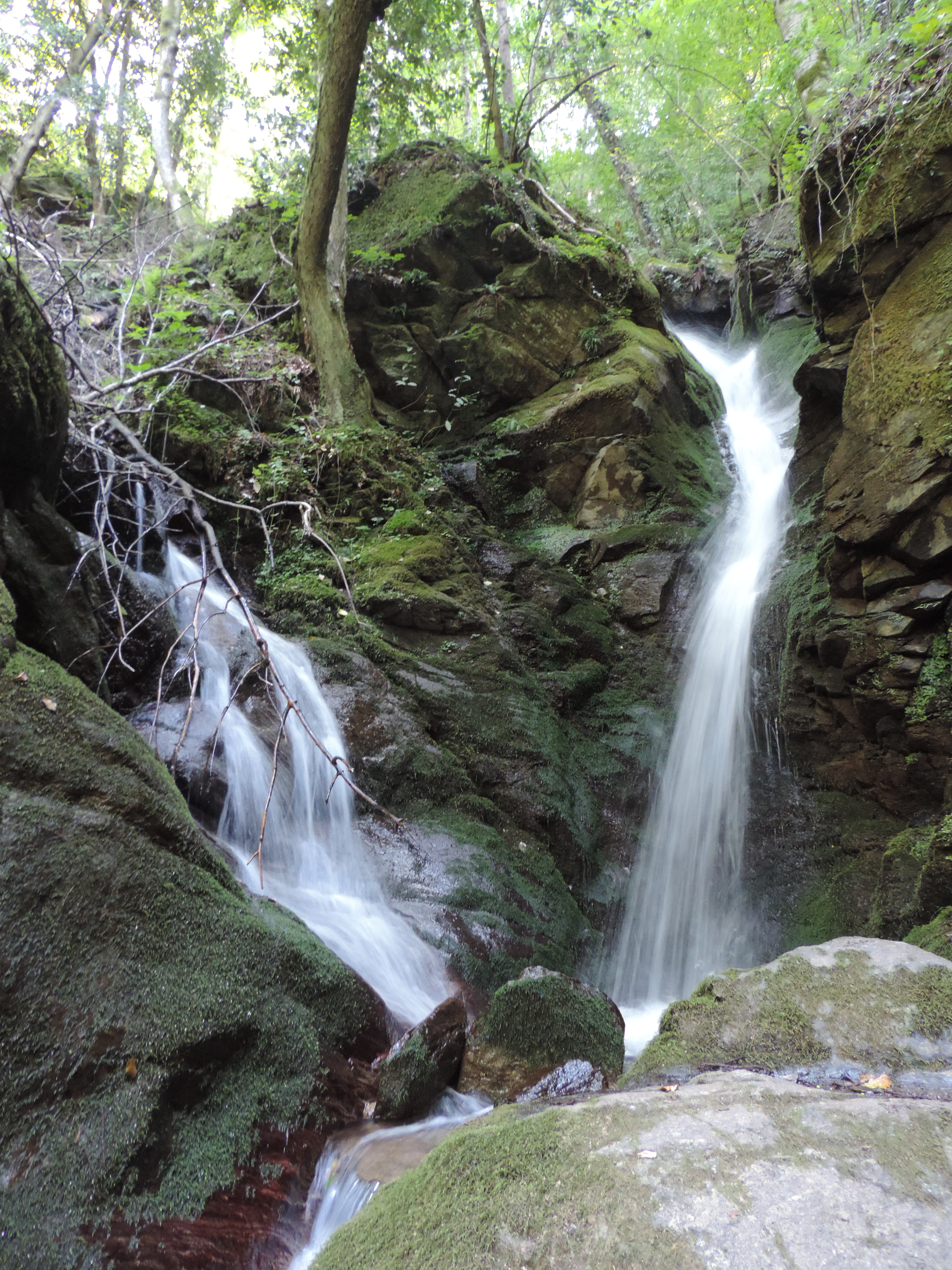 Leshnishki waterfall, Belasitsa, Bulgaria